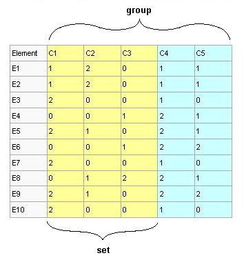 Improved footnote for attribute-valued reference